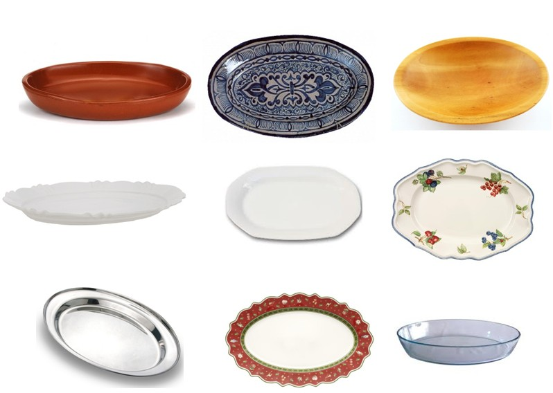 Different types of cover oval plates made of different materials: ceramic, wood, silver, porcelain, glass, refractory.